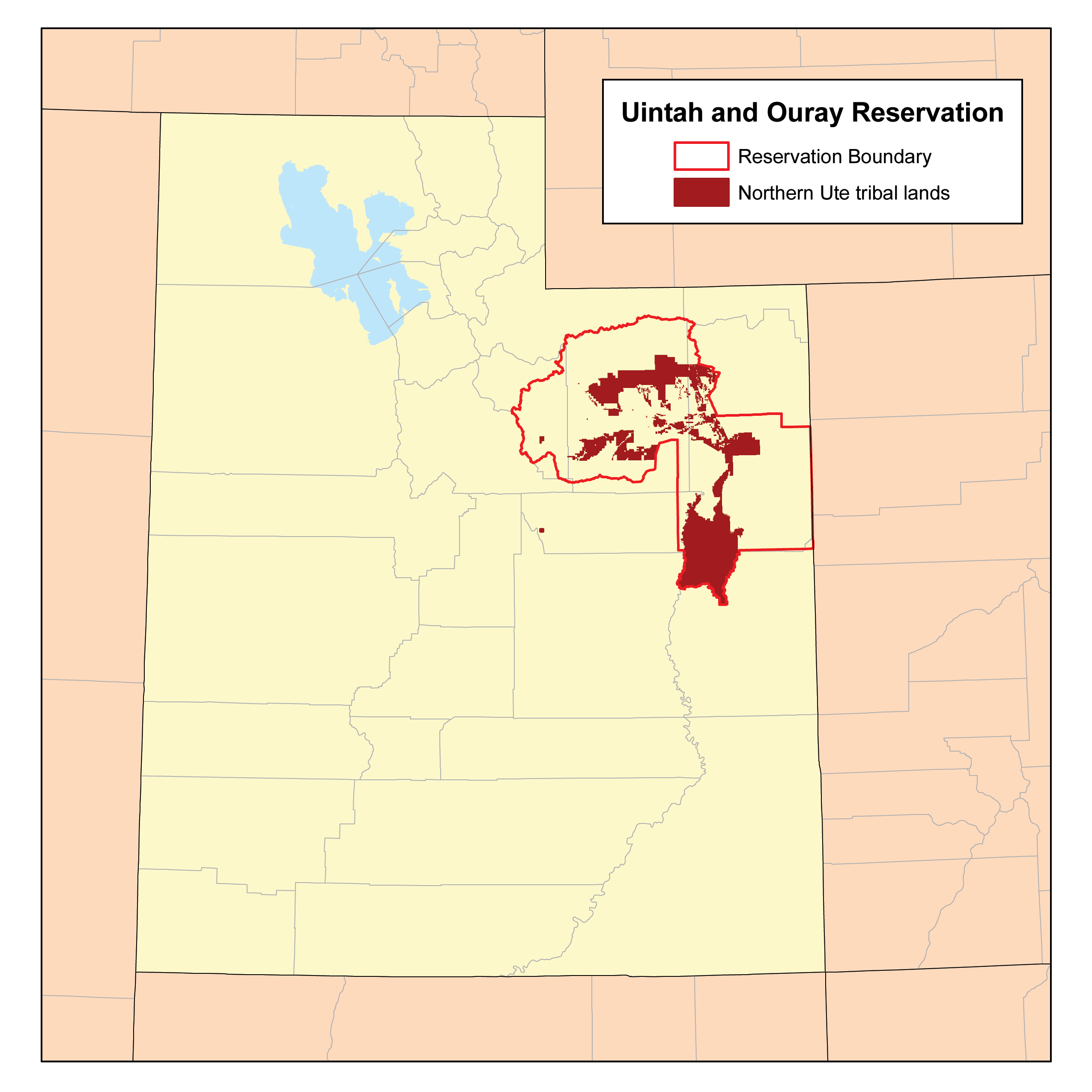 This is a map of the Uintah and Ouray Indian Reservation I made using National Atlas and BIA data.